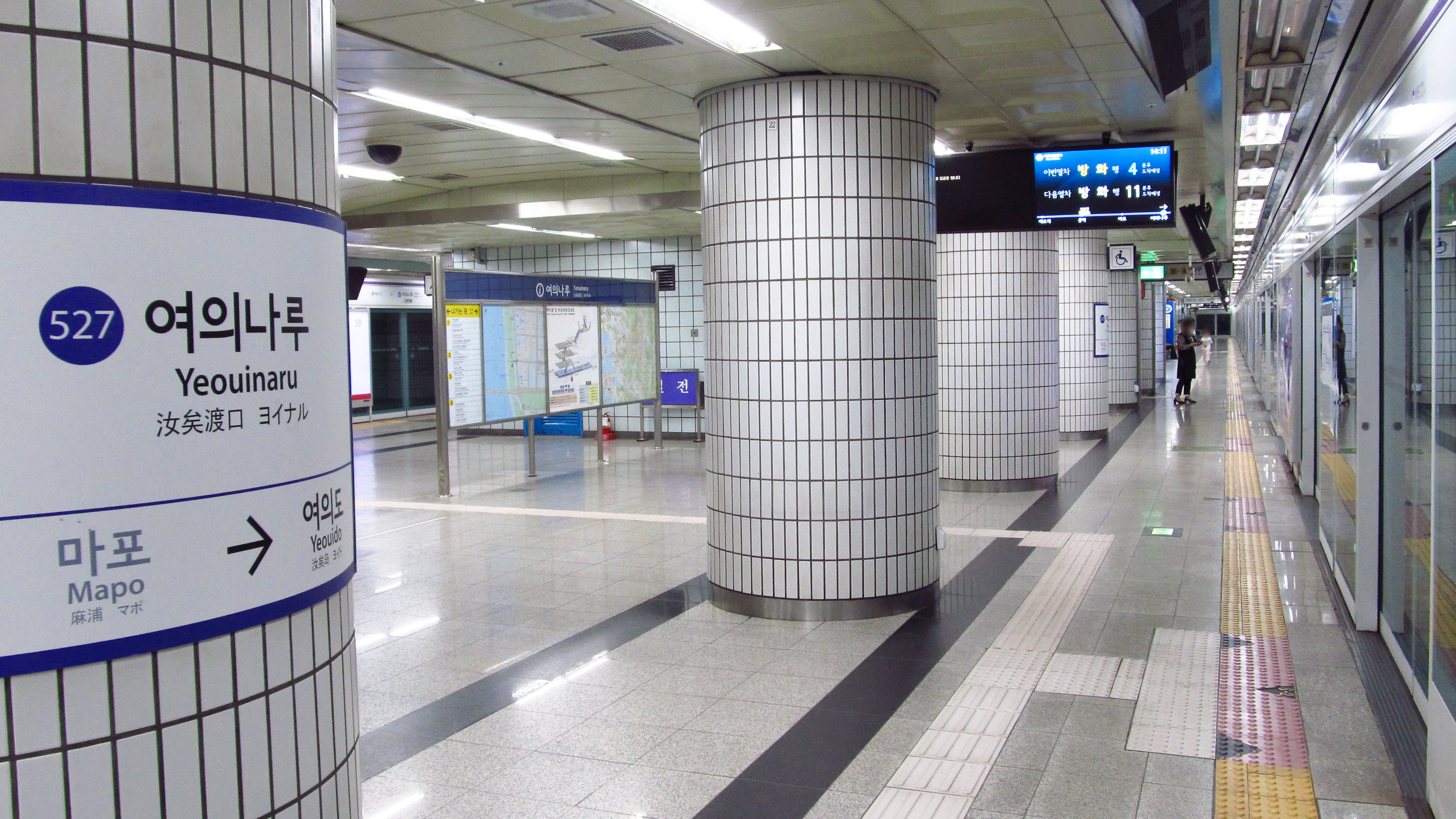 The platform at Yeouinaru Station on Seoul Subway Line 5 in Yeongdeungpo-gu, Seoul, Republic of Korea(South Korea)